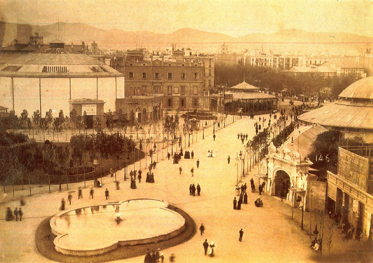 Plaça Catalunya, Barcelona, ca. 1880